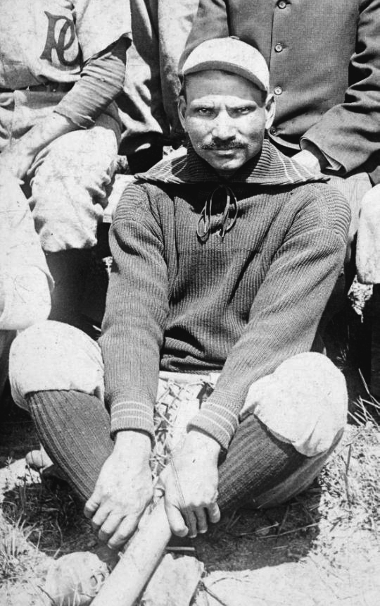 A detail from a team photo of the 1902 Philadelphia Giants baseball team showing the captain/manager, Sol White.